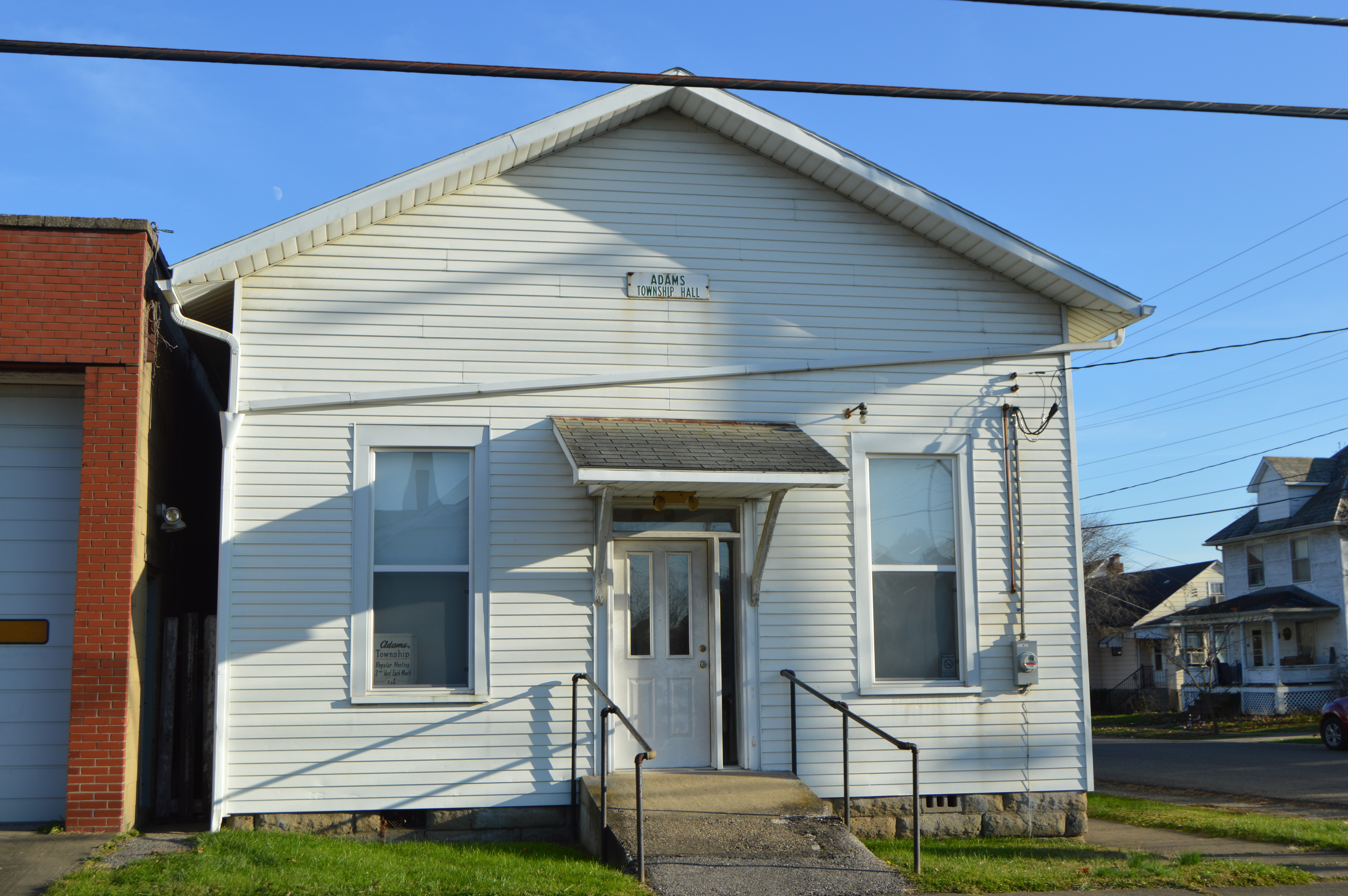 Front of the Adams Township hall, located on Walnut Street at Third Street in Lowell, Ohio, United States.